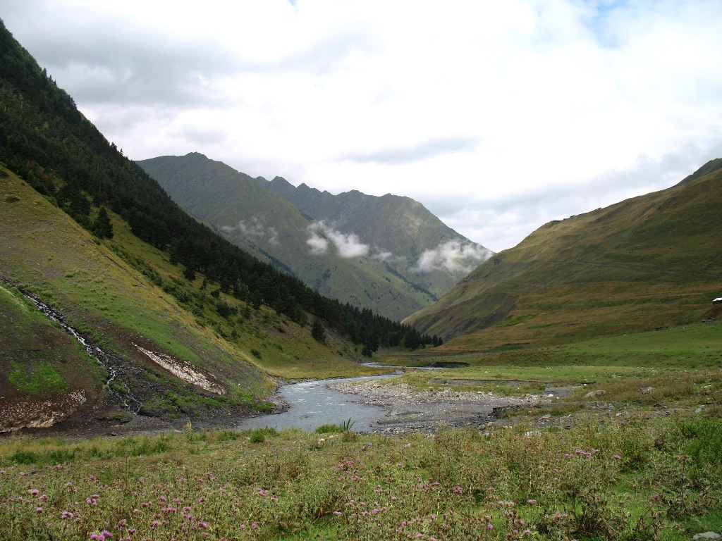 Landscape of Tusheti